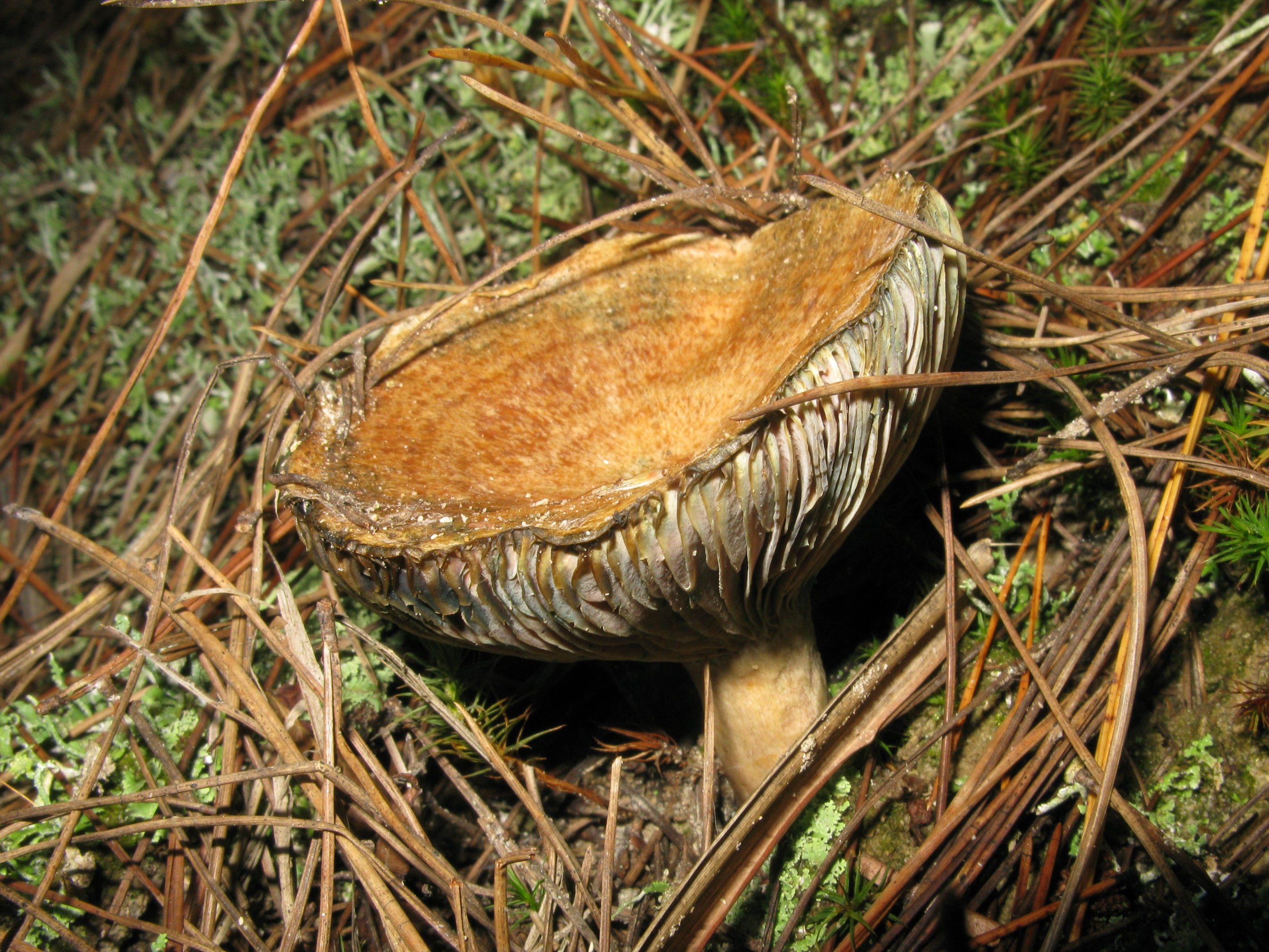 Lactarius lividatus, Aizu area, Fukushima pref., Japan